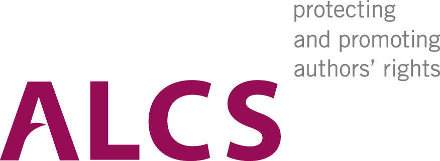 Logo